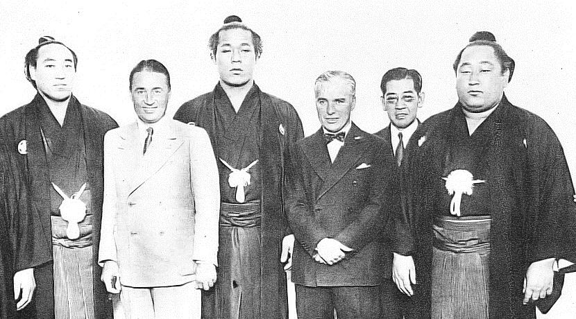 Charles Chaplin and Sumo wrestlers